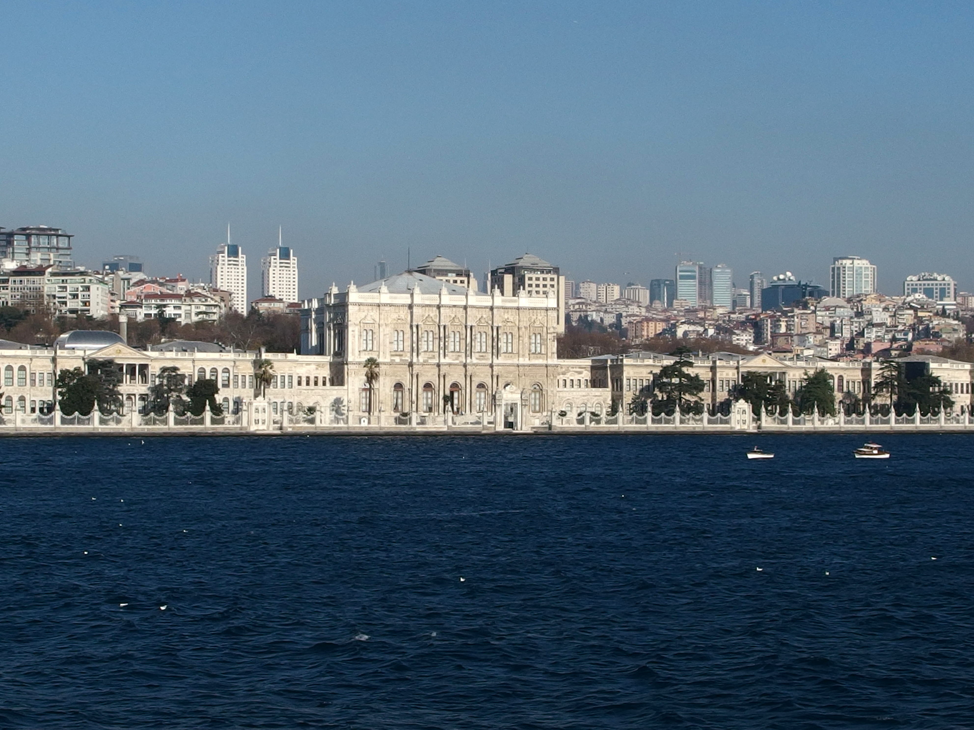 2013-12-06 in Istanbul